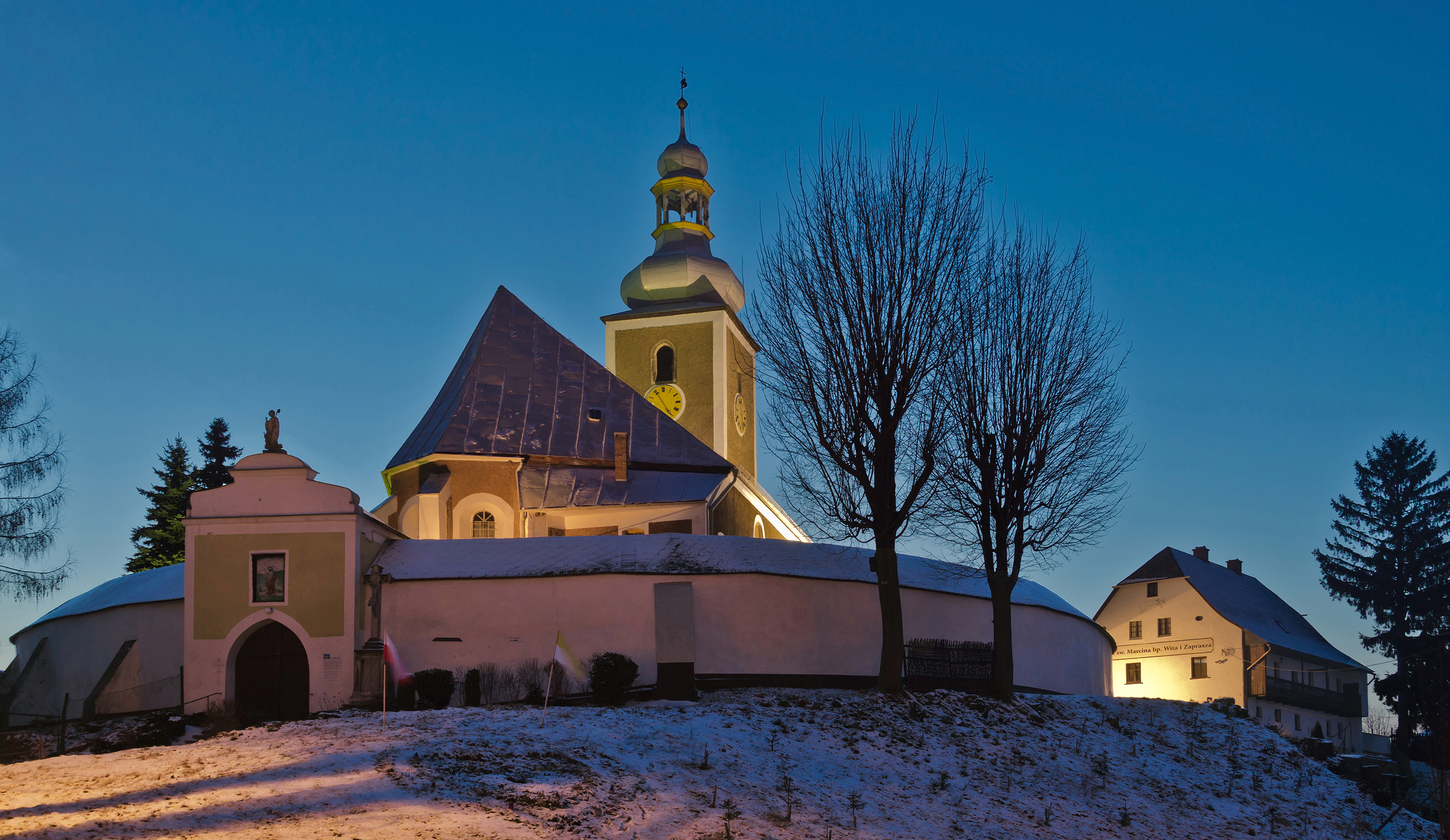 Church of Saint Martin in Żelazno